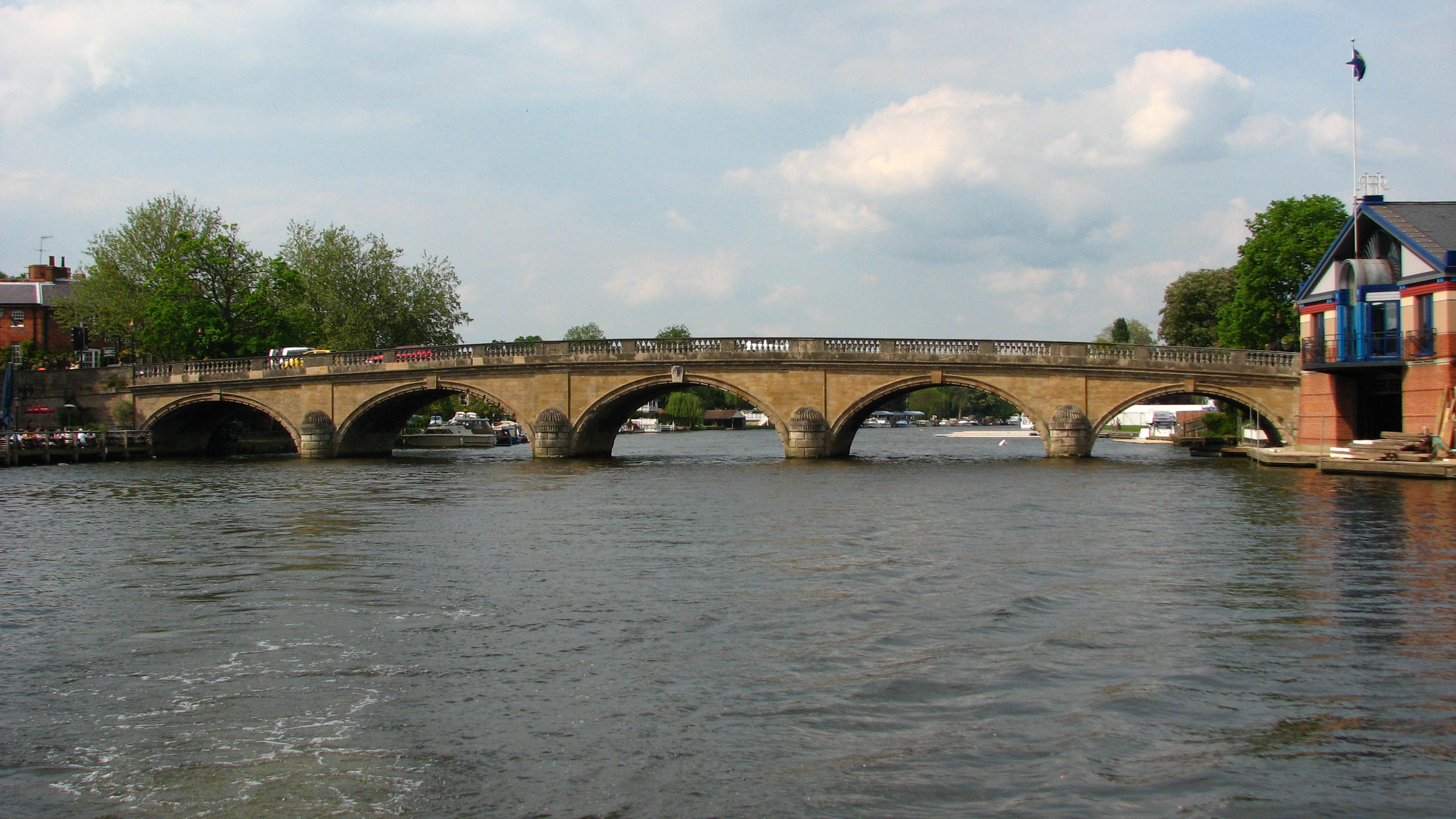 Henley Bridge over the River Thames